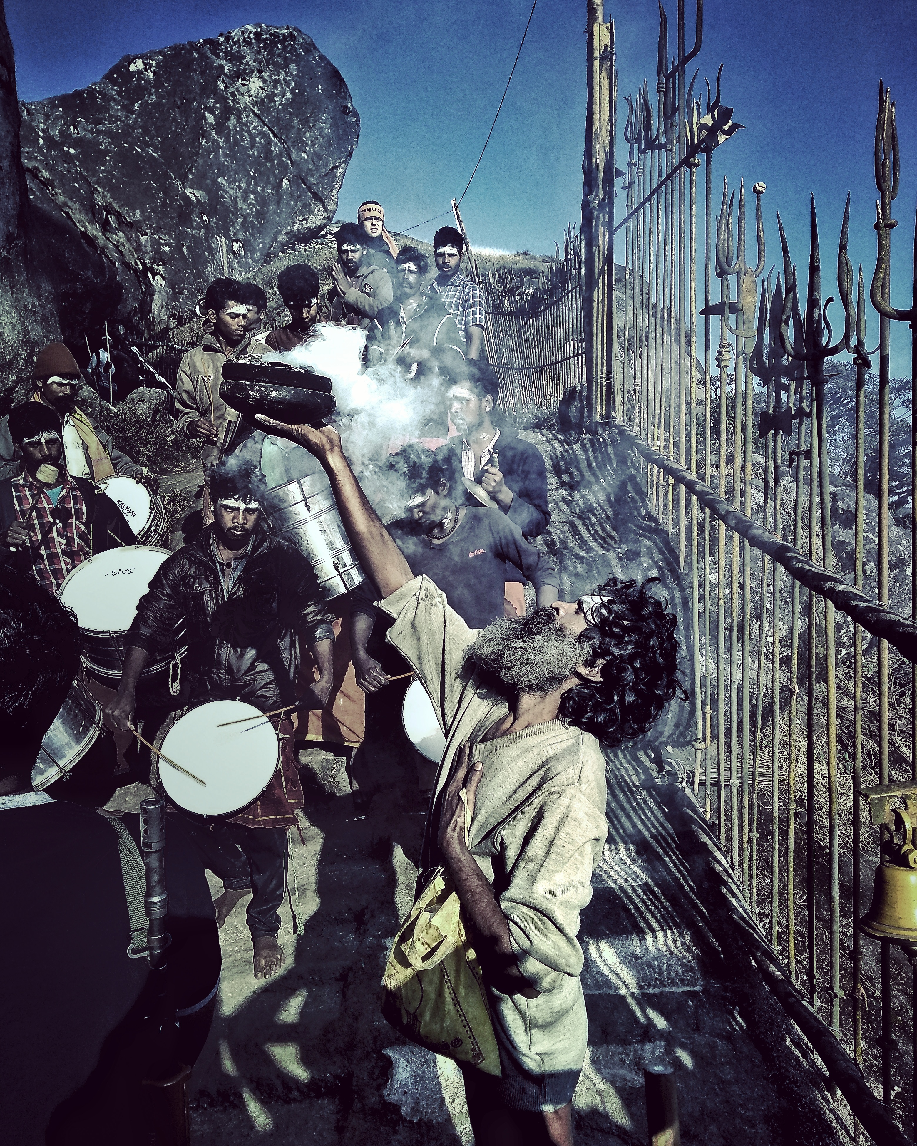 This is Velliangiri mountain situated at Western Ghats of Coimbotore, nearly 6000ft elevation. Here he is worshipping Lord shiva in the morning by chanting many manthras and lots of beats around him.The climate is very chilled around there